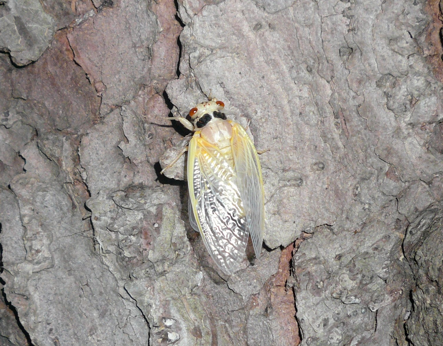 Newly molted Brood XIII Magicicada septendecim 17 year cicada, from the south suburbs of Chicago.